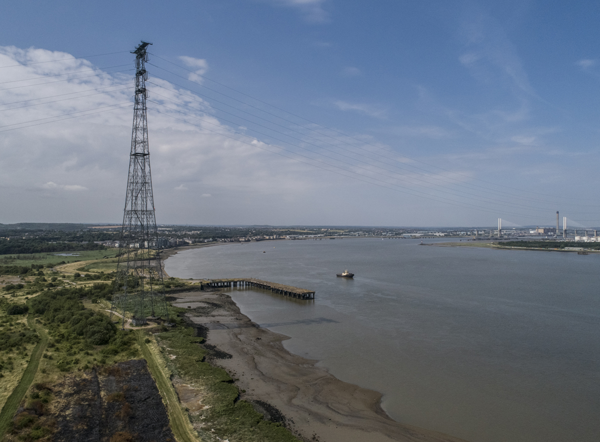 View of the Kent 400 kV Thames crossing tower.